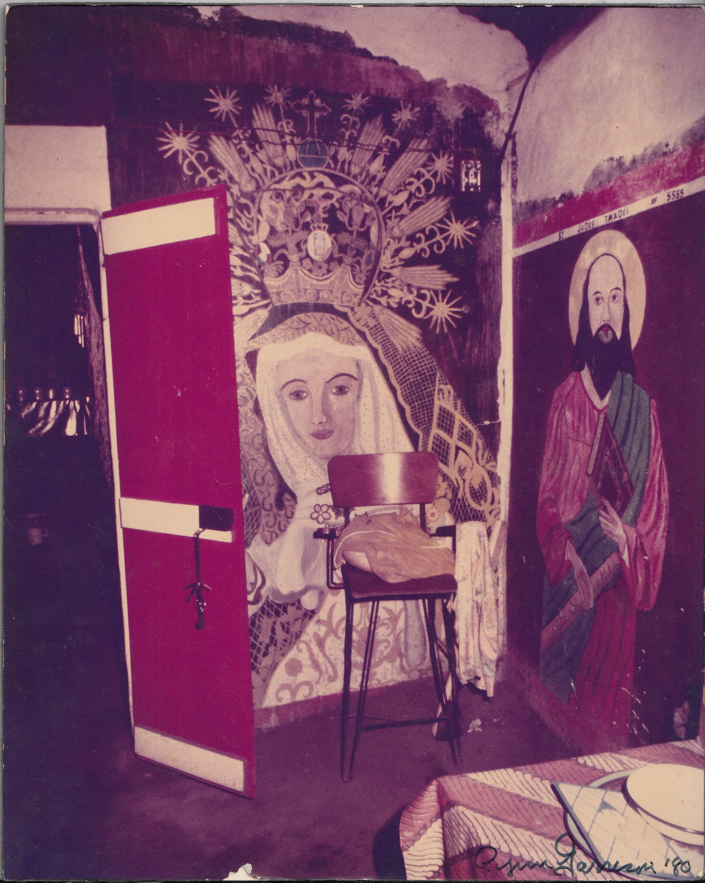 Photograph from Garrison's first Haitian film production, 1980